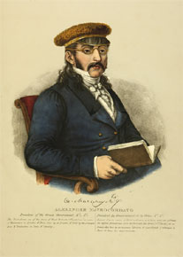 Alexandros Mavrokordatos